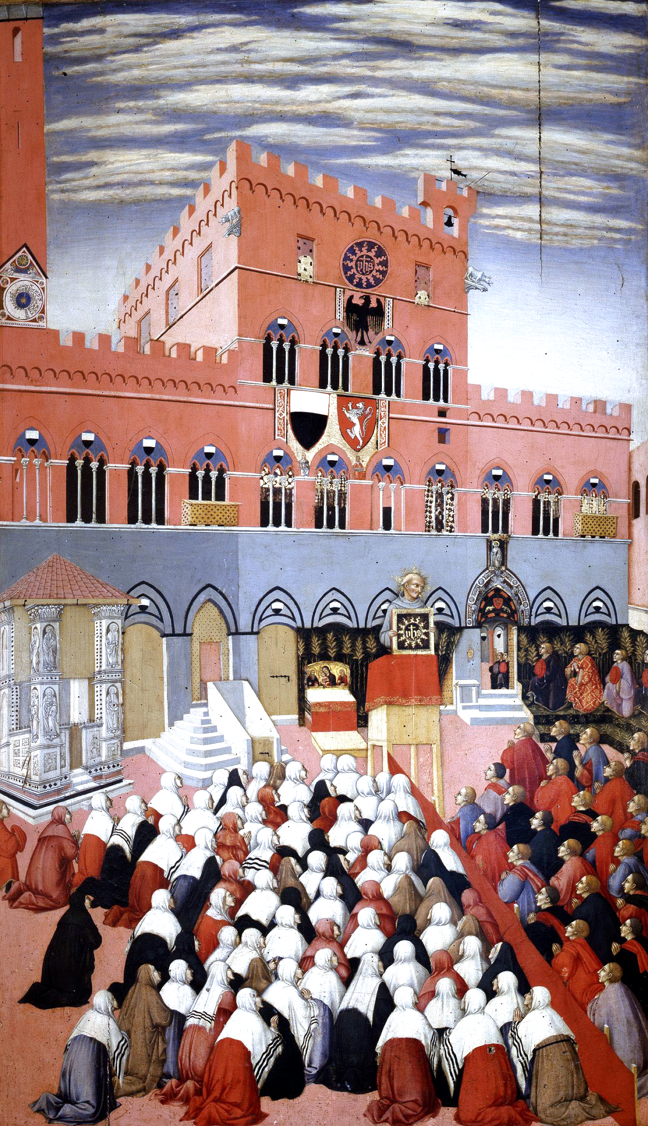 Saint Bernardino preaching in the Campo